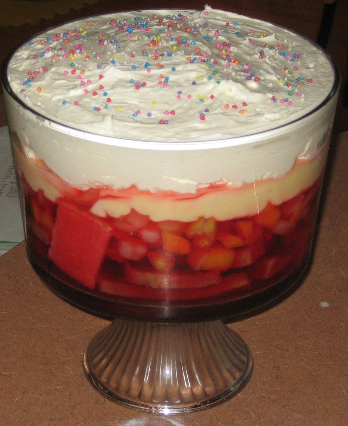 This is a trifle made from a family recipie. The layers include pound cake covered in raspberry jam, fruit cocktail ( without syrop ), jello ( slightly less water ), english custard, whipped cream and sprinkles ( melting )